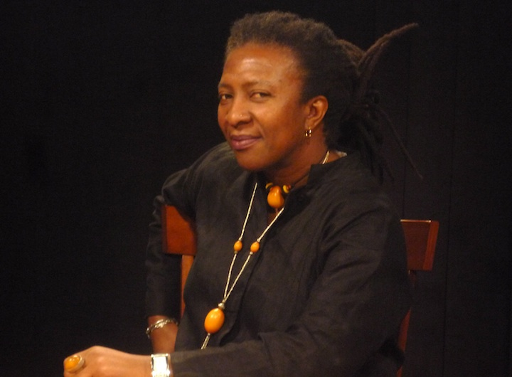 Image of Prof. Frieda Ekotto by Robert Demilner